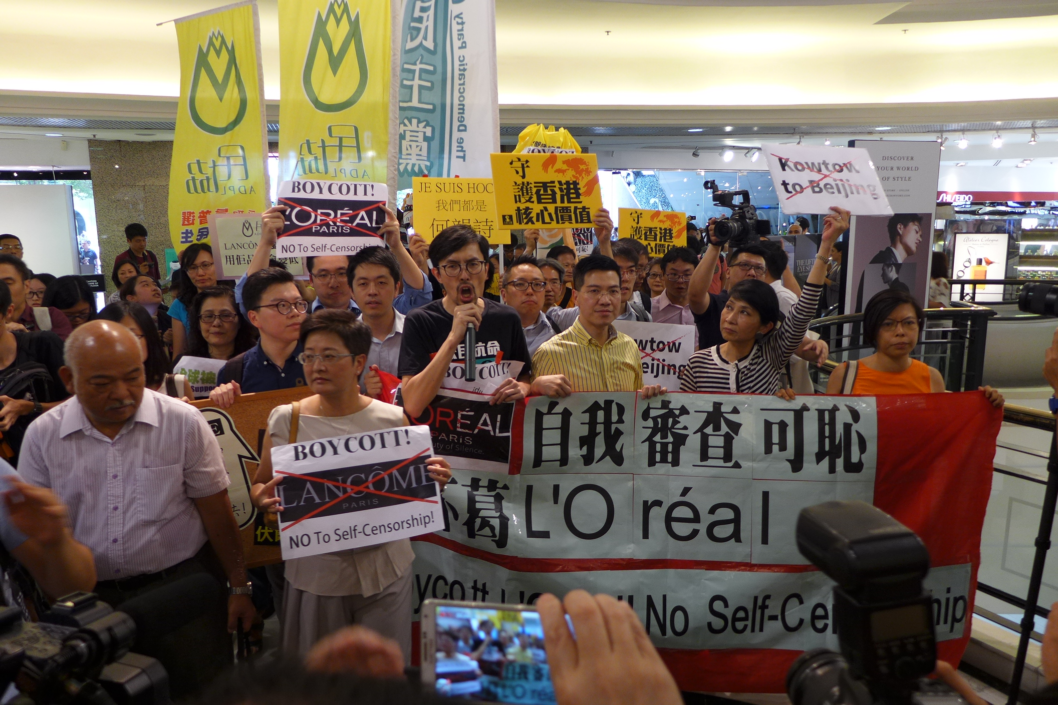 Pan Democratic Boycott Loreal in CWB Times Square